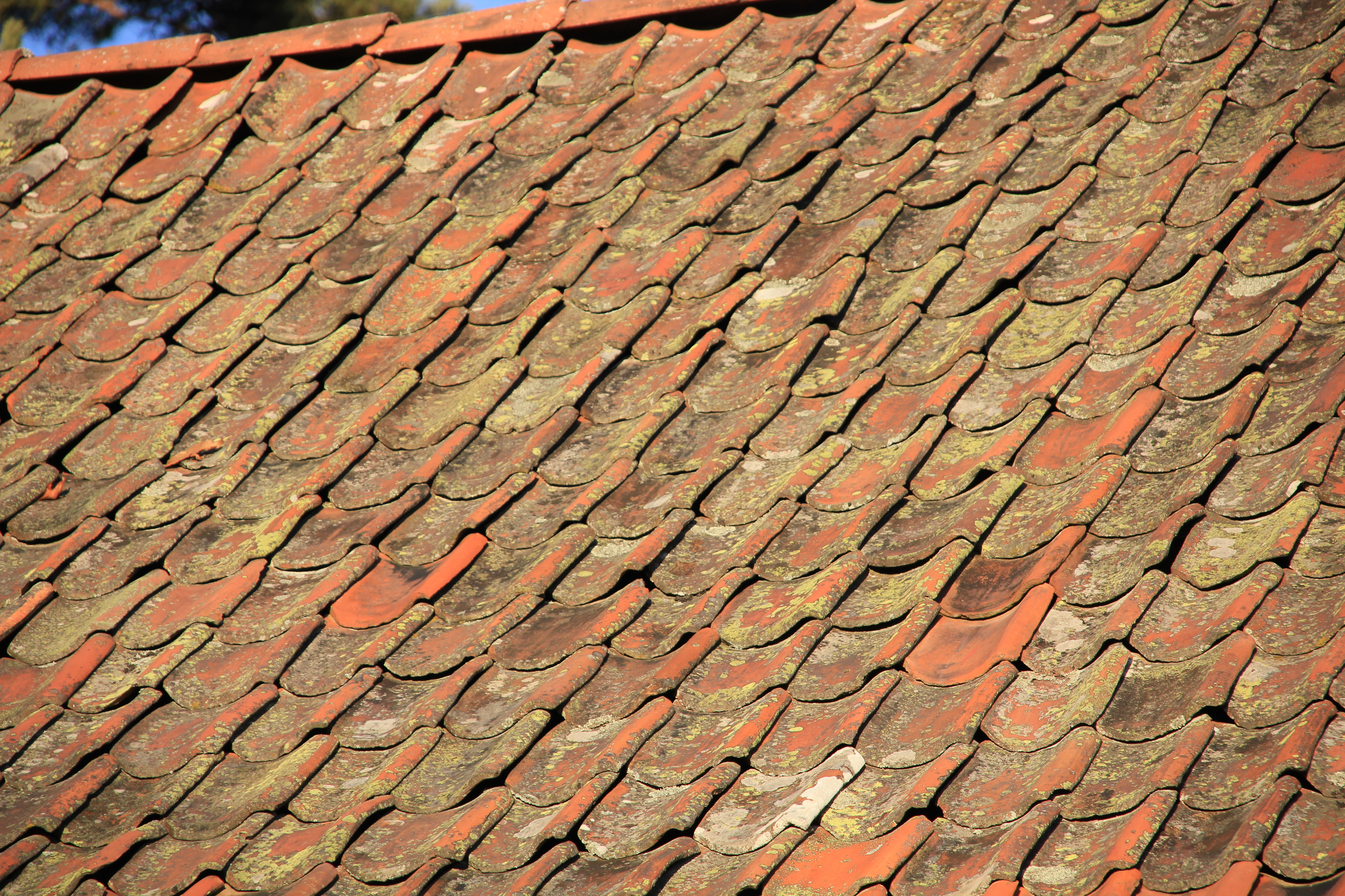 Roof tiles with lichen, from burned clay